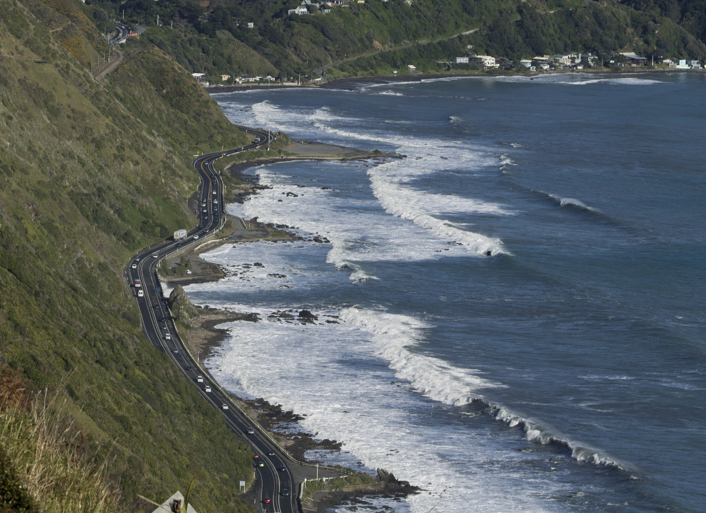 Centennial Highway 2015. Part of the Main Trunk railway line which passes through tunnels, is visible top left